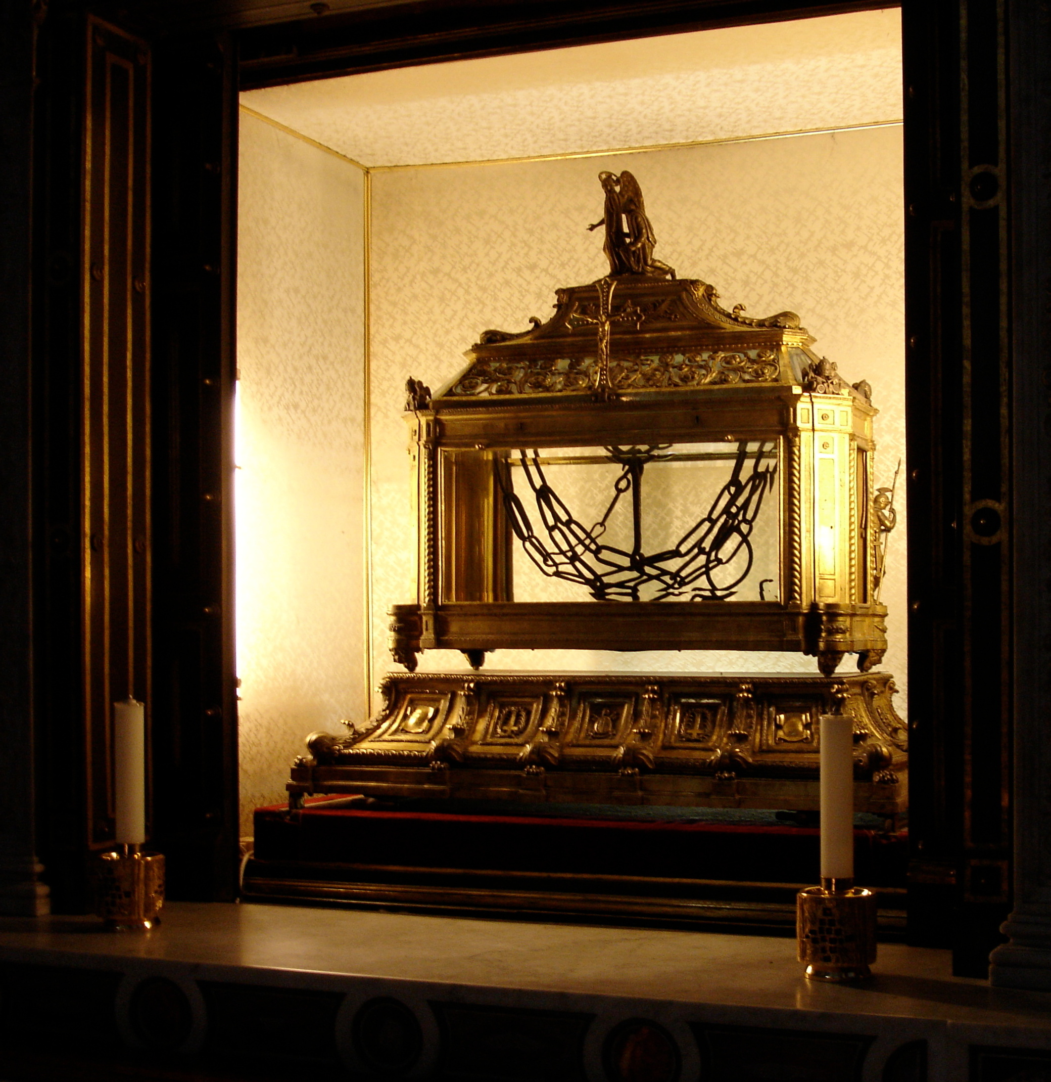 the chains of San Peter in the "Basilica di San Pietro in Vincoli" in Rome, Italy